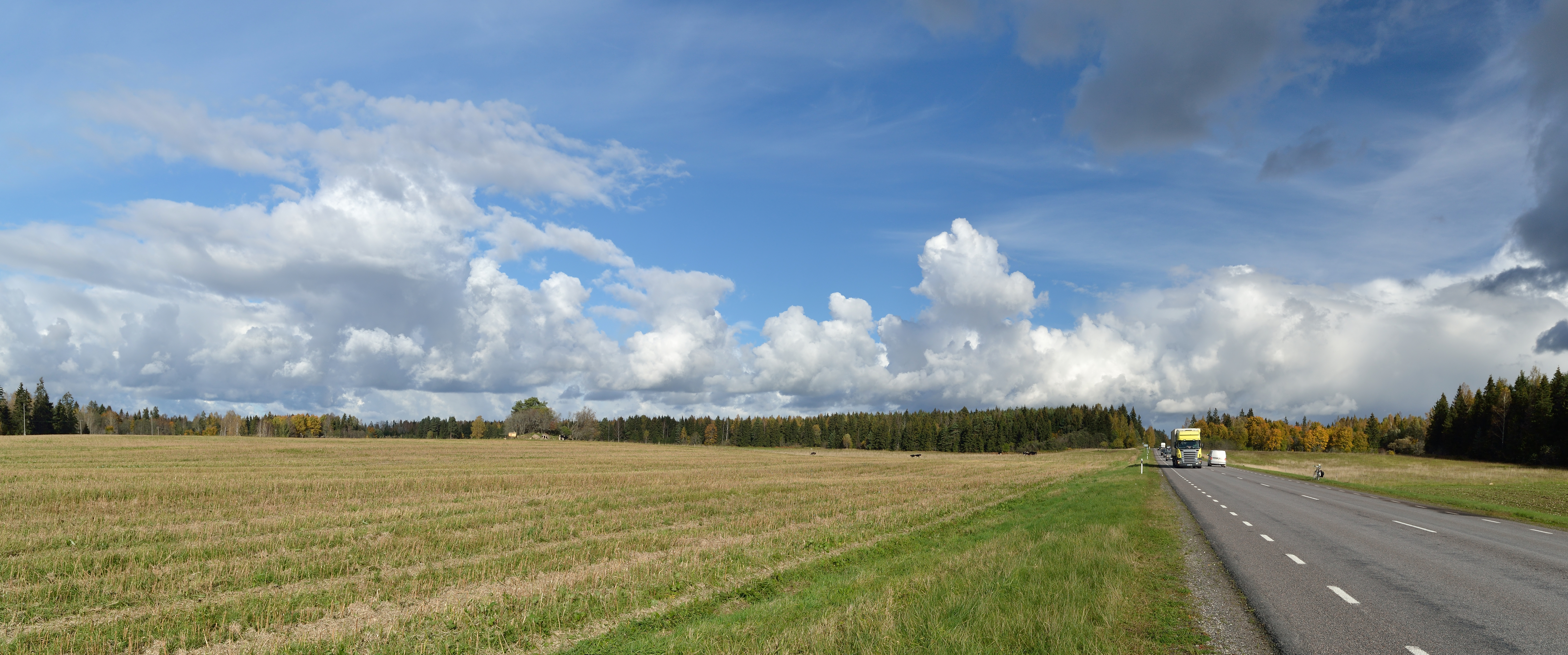 Ääsmäe-Haapsalu road in Kabila village